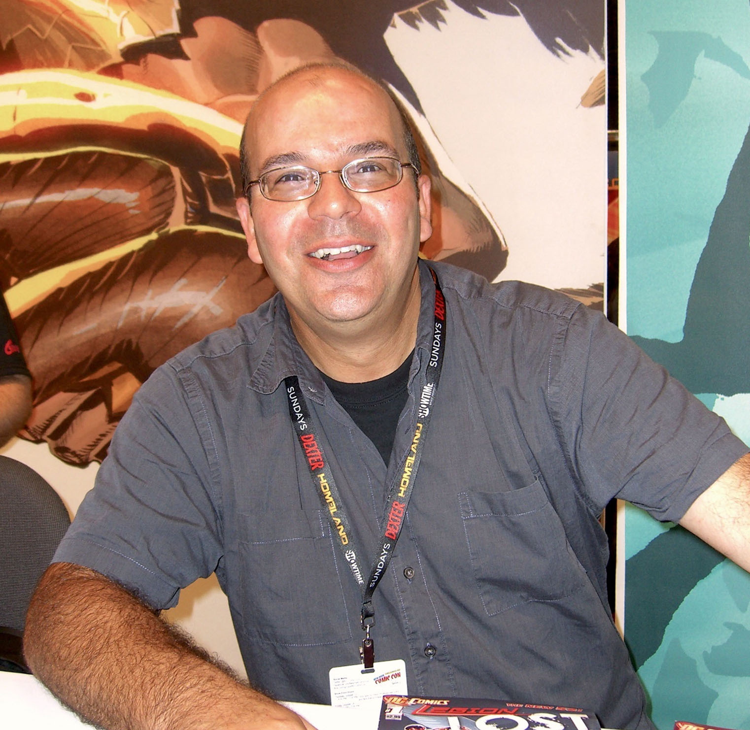 Comics creator Fabian Nicieza at the 2011 New York Comic Con, Friday, October 14, 2011. This photo was created by Luigi Novi. It is not in the public domain, and use of this file outside of the licensing terms is a copyright violation.